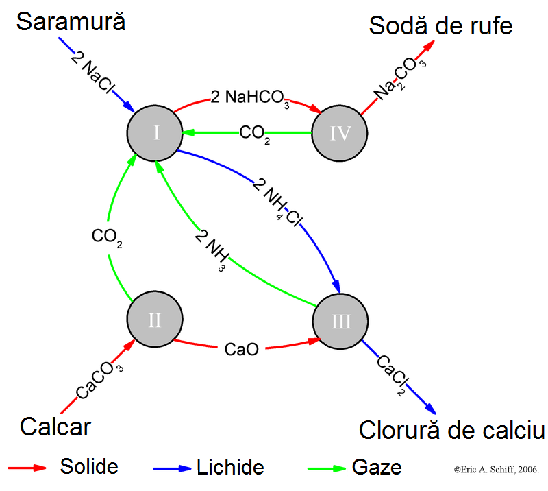 The figure illustrates the flow of reactants and products among the four principal chemical reactions involved in the Solvay process.